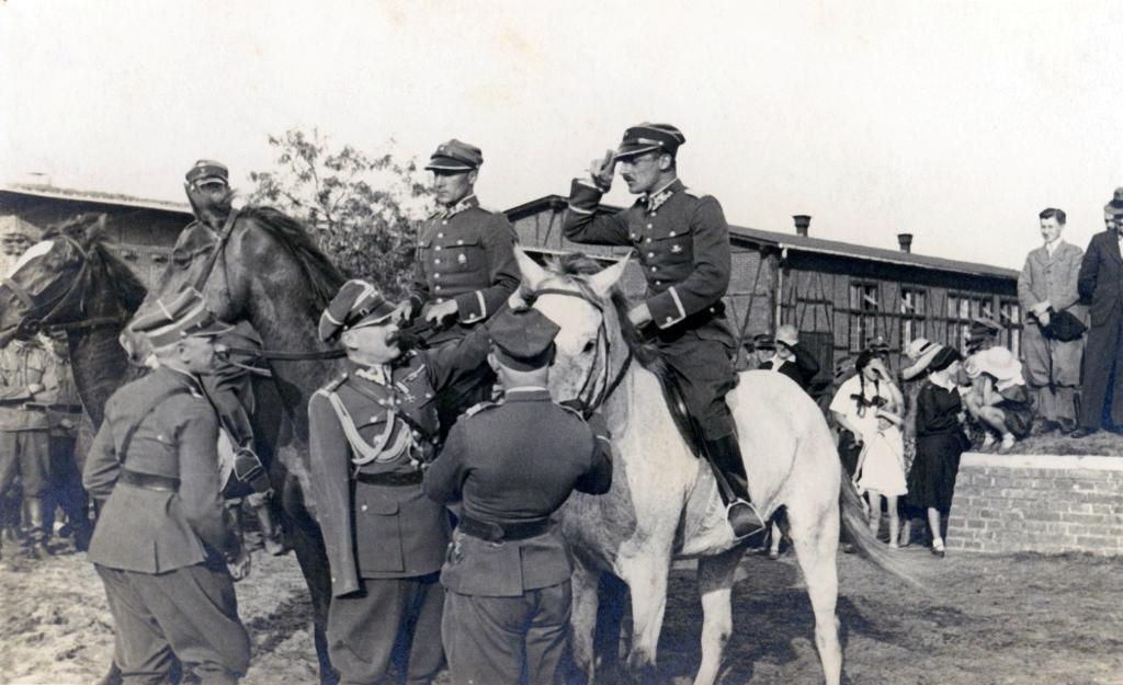 Interschool Horse Competition May 21, 1934. Commandant of the Officer Cadet School for Non-commissioned Officers, Colonel Stefan Kossecki, and the winners of the Horse Riding Club Award cadets: Jan Marowski, Bronisław Sadlej and Józef Irzyński